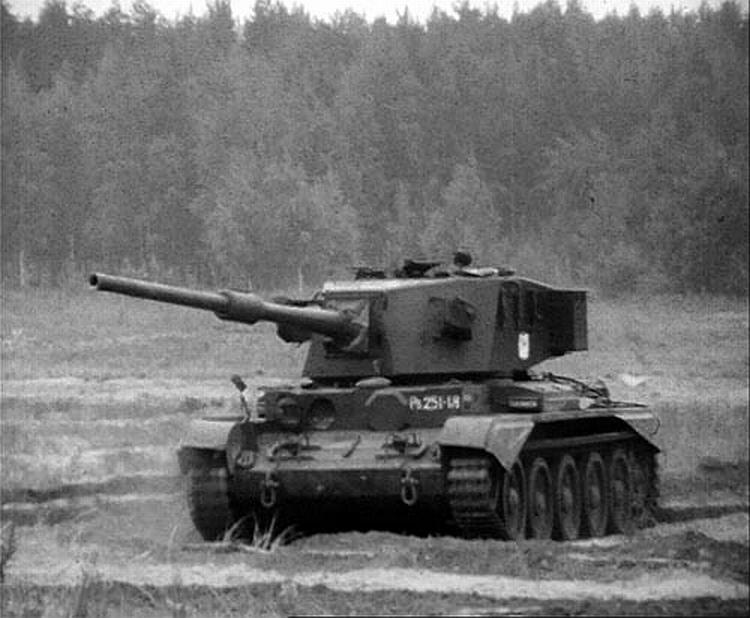 Charioteer Tank manned by British Territorial Army